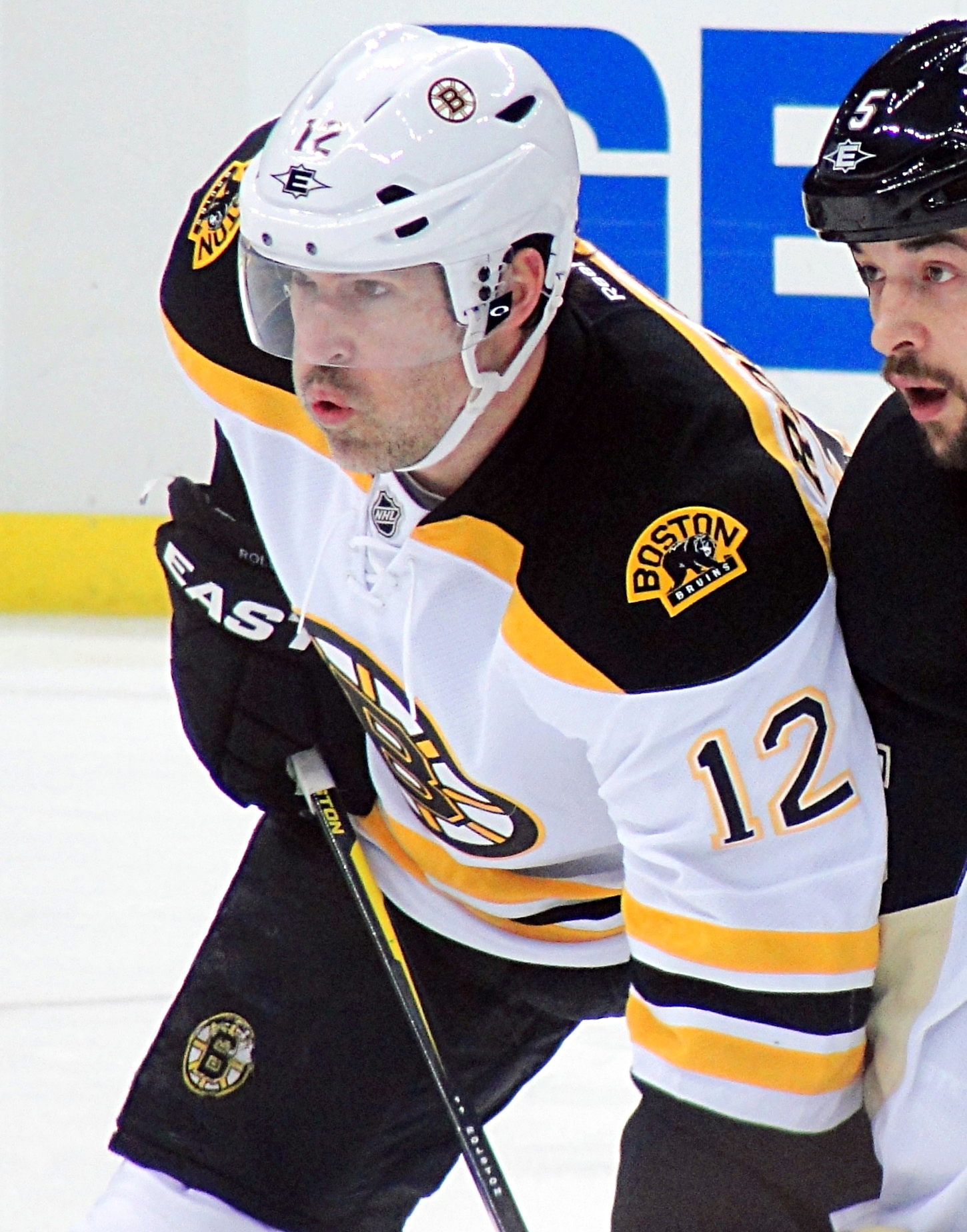 Boston Bruins forward Brian Rolston during a game against the Pittsburgh Penguins, March 11, 2012 at Consol Energy Center in Pittsburgh, PA.